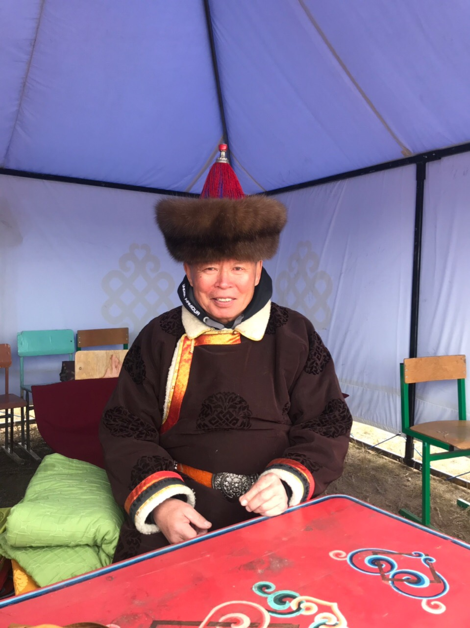 Ekhirit-Buryat. Adag-Chono